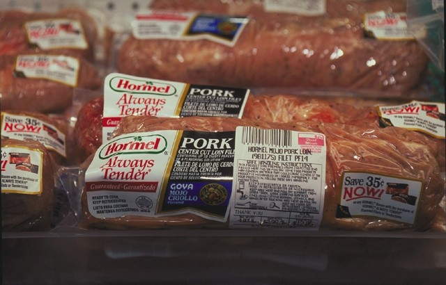 United States Department of Agriculture photo. Enhanced slightly by Guanaco.